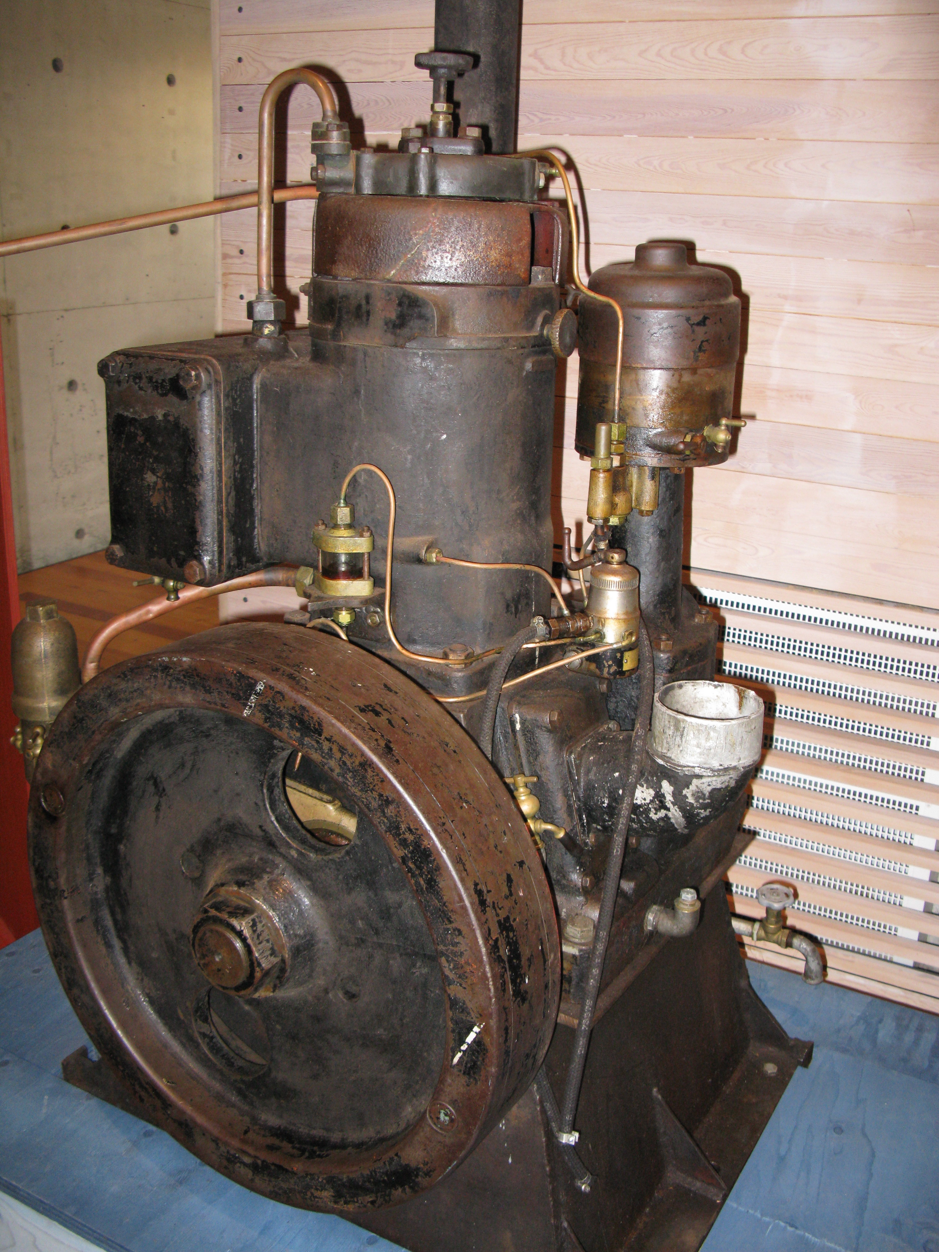 An old engine used in farming and logging, displayed in the Lusto forestry museum in Punkaharju, Finland.